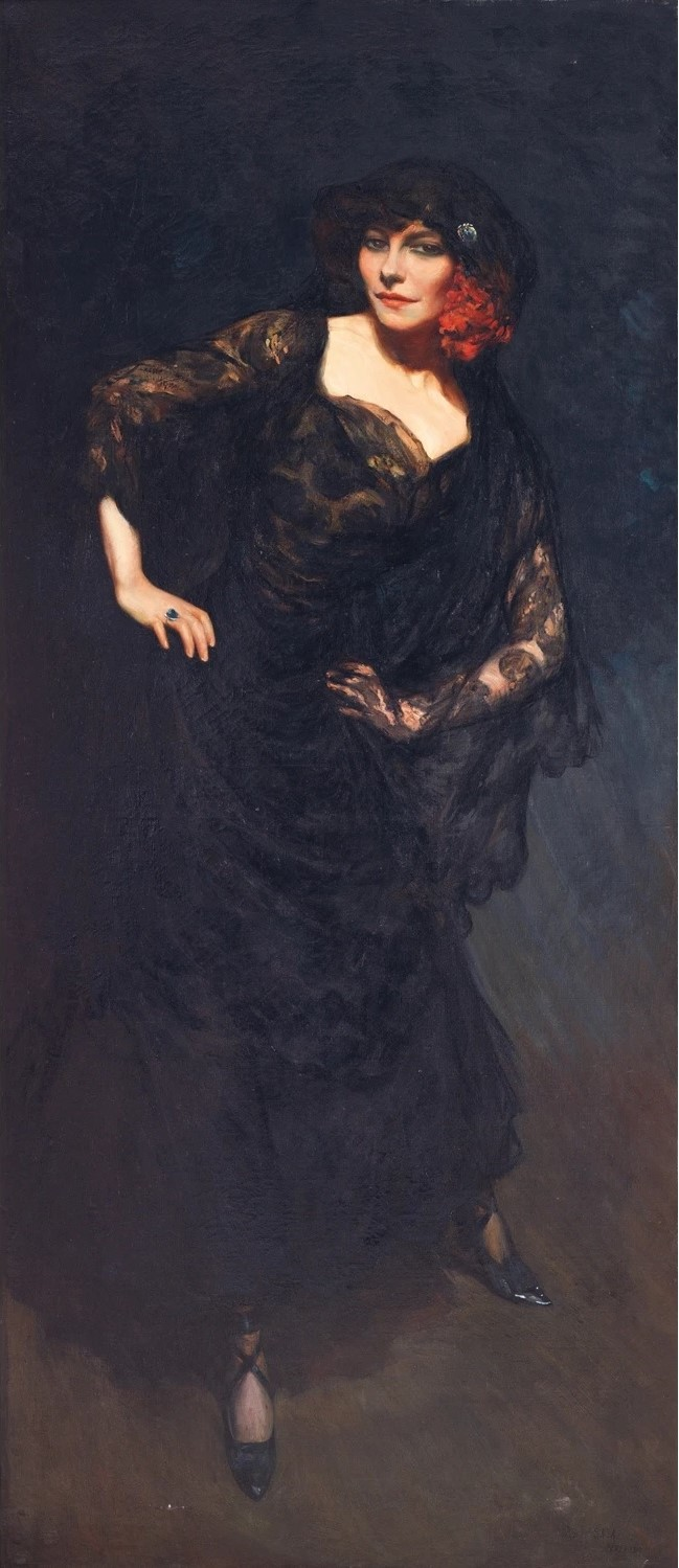 Portrait of Polaire.